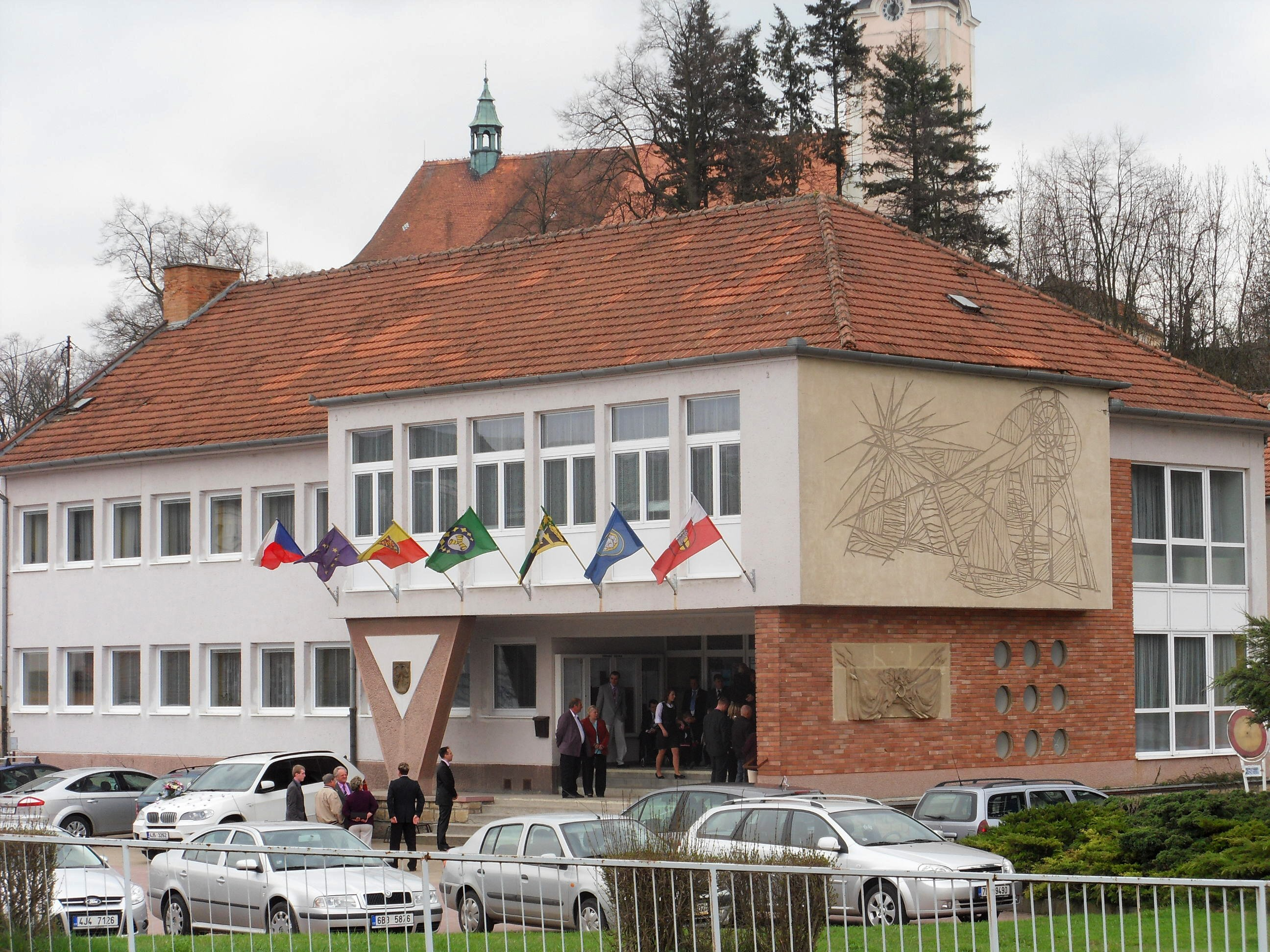 Oslavany, Brno-Country District, Czech Republic